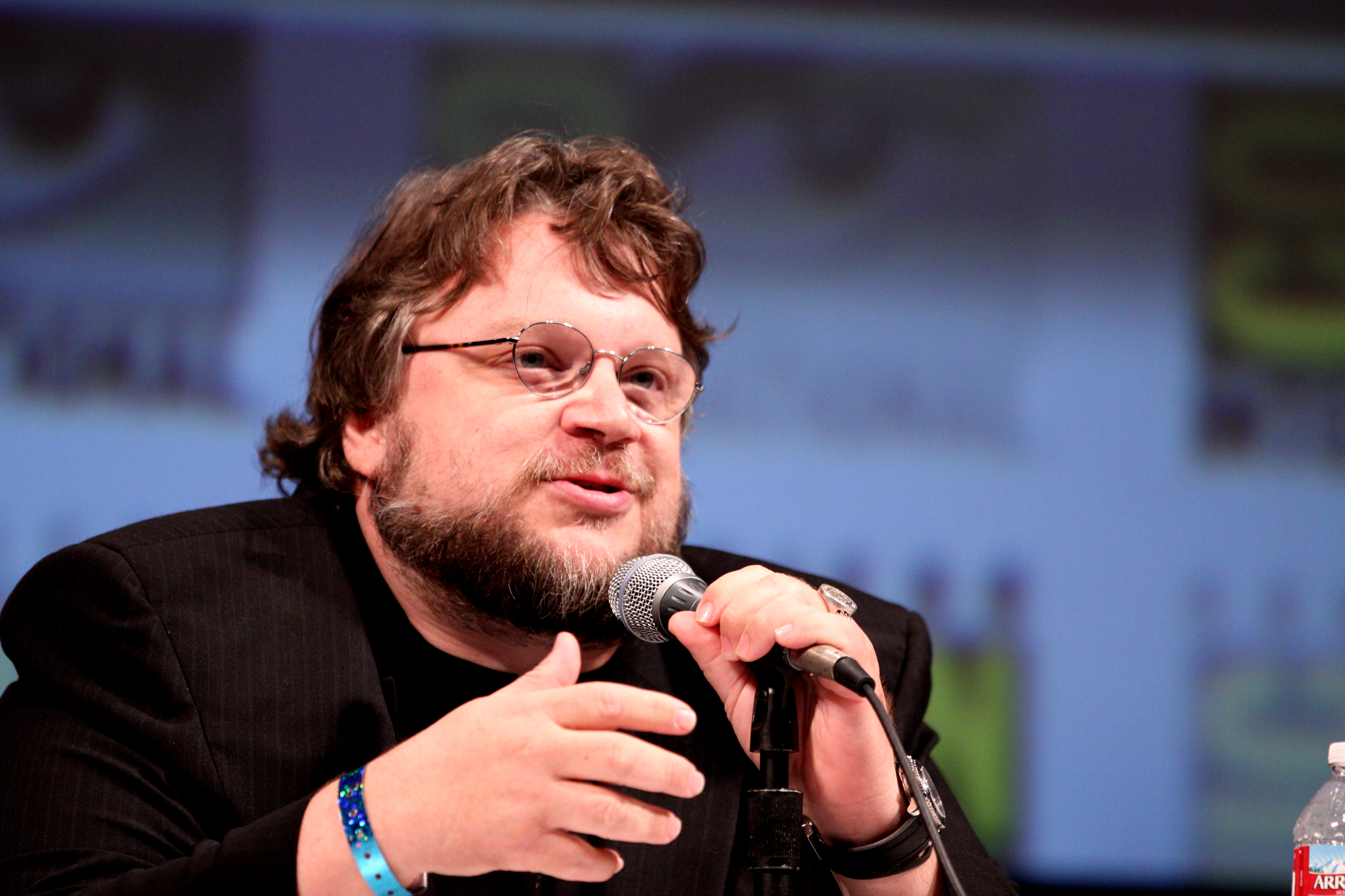 Director Guillermo del Toro announcing a 3D version of the film The Haunted Mansion at the 2010 San Diego Comic Con in San Diego, California.